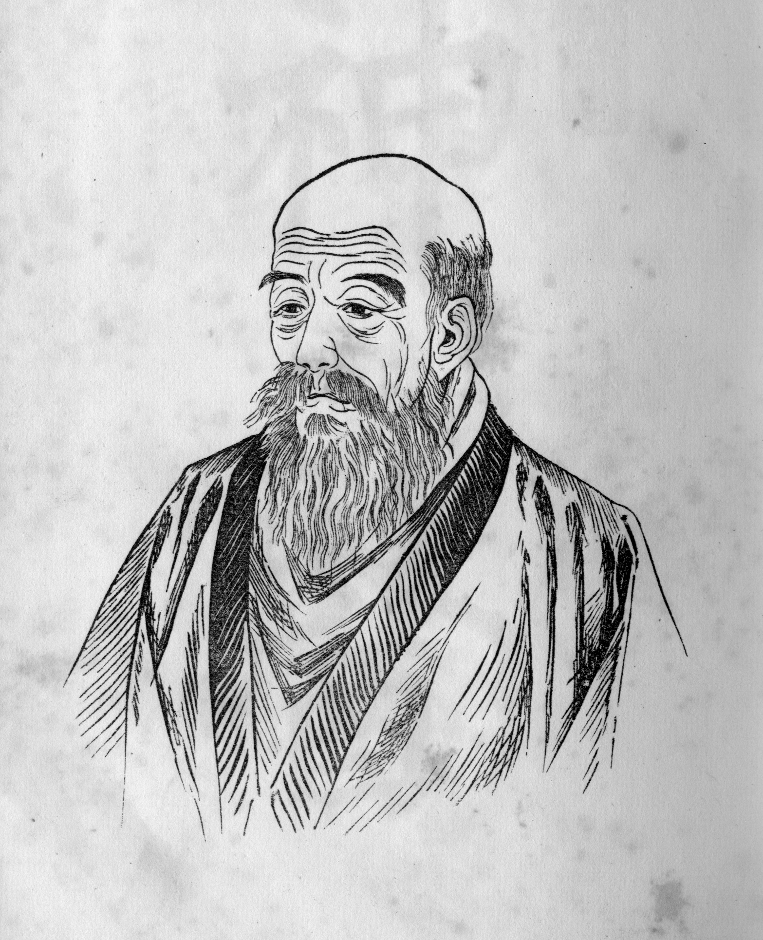 The Japanese physician Nagata Tokuhon (1513-1630)